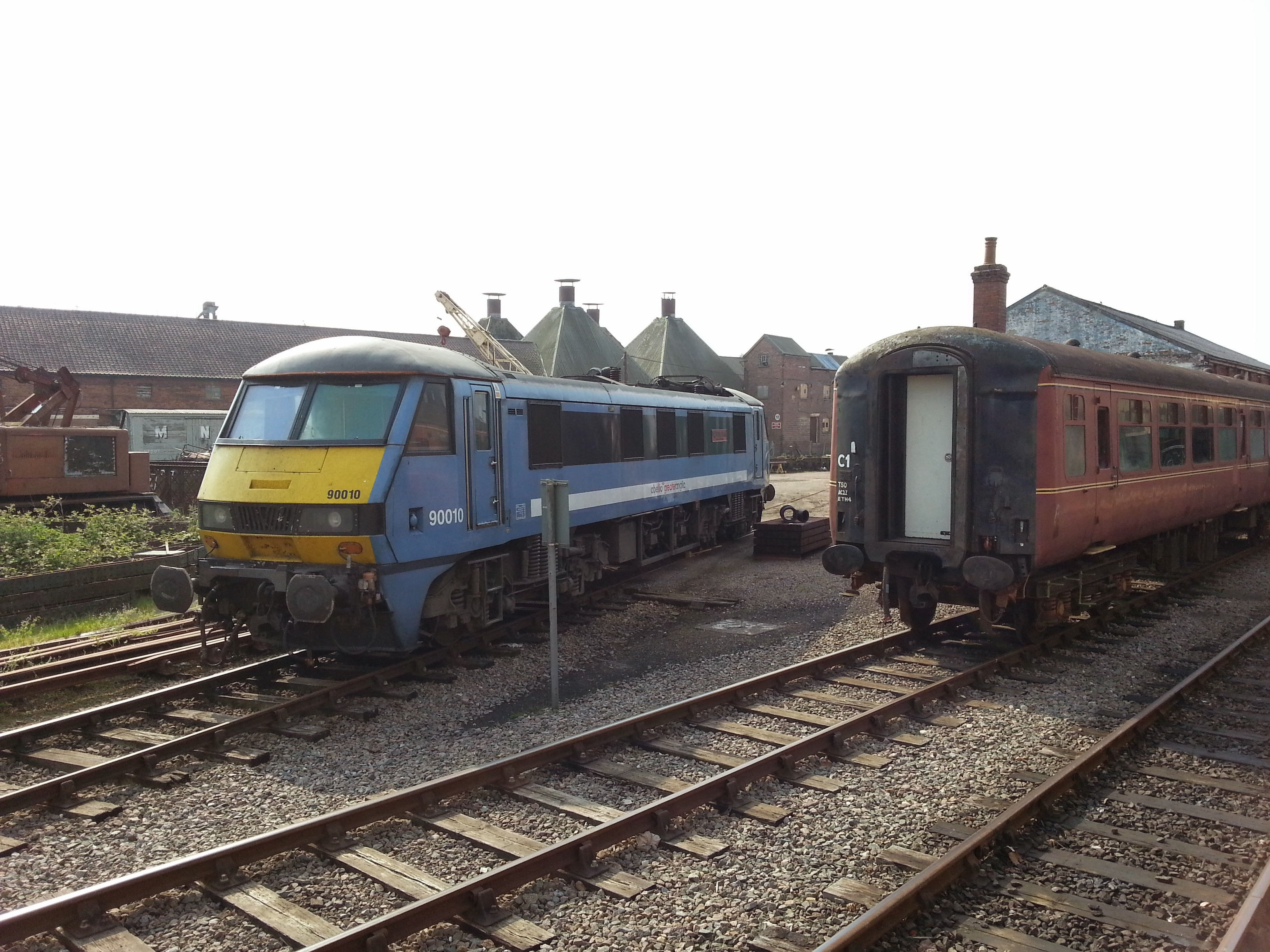 Greater Anglia electric loco 90010 at Dereham station on the Mid-Norfolk Railway on 18 May 2014 awaiting transport by road to Crewe for repair.